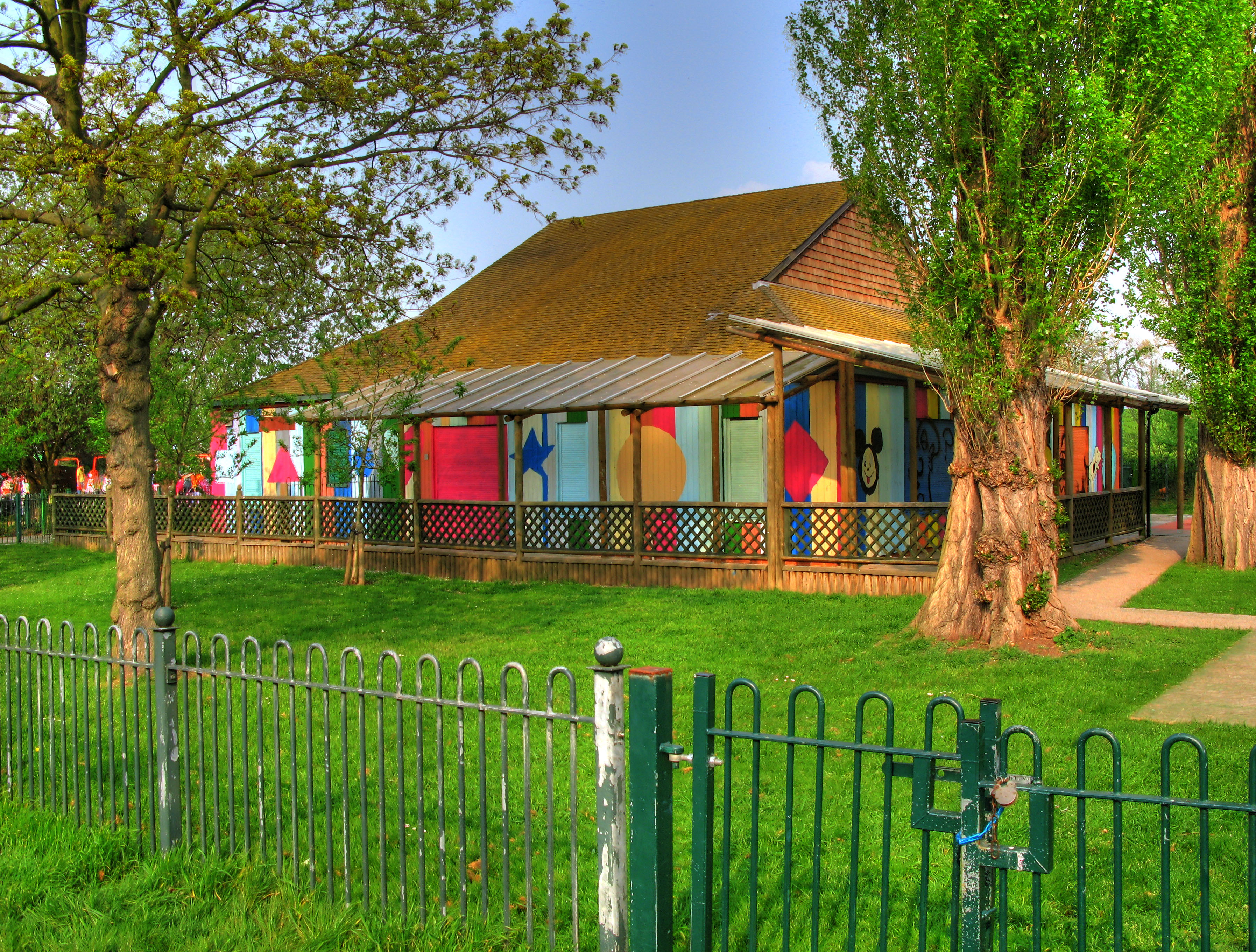 Premises of Brockwell Park playgroup, London, UK